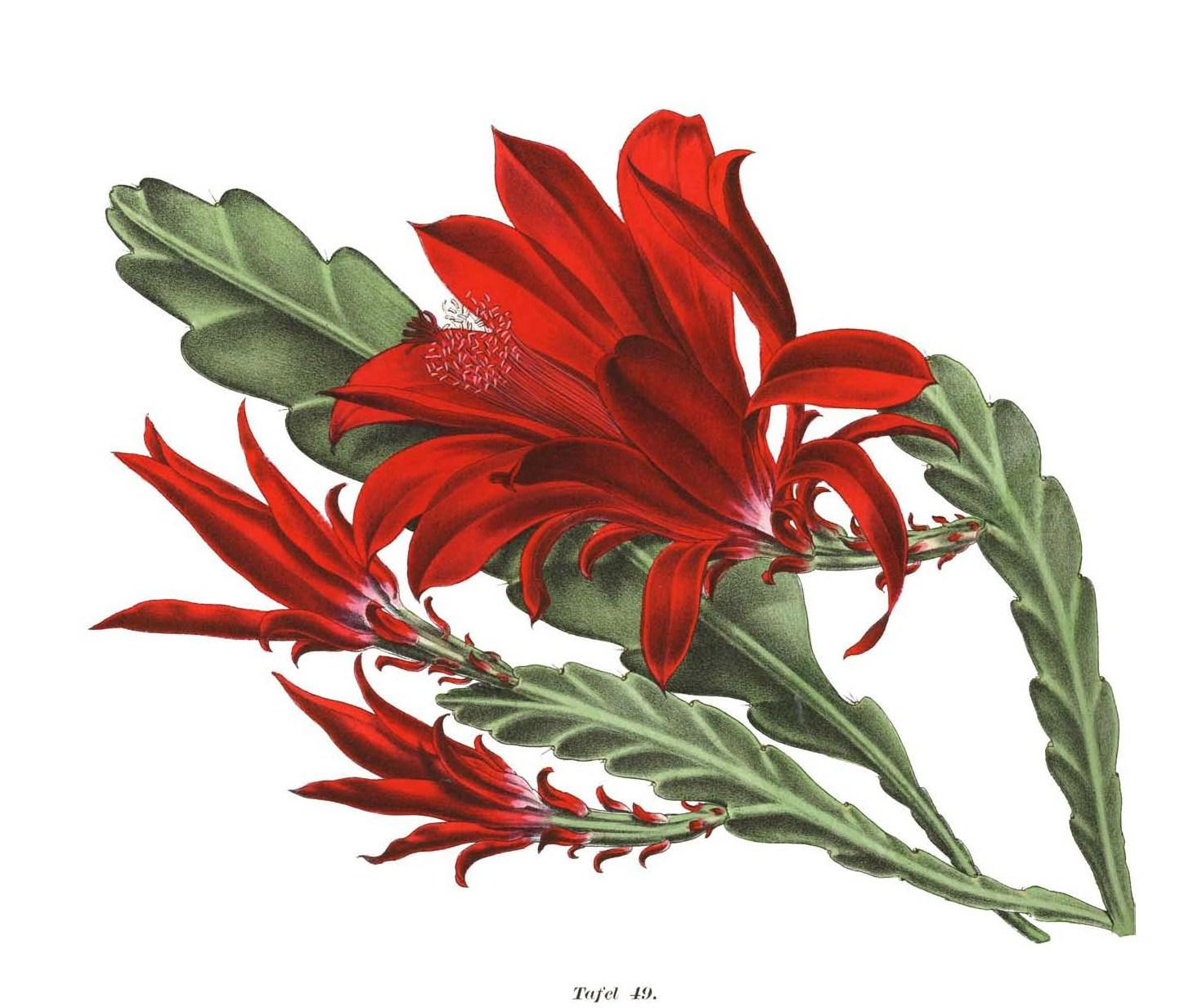 Disocactus ackermannii